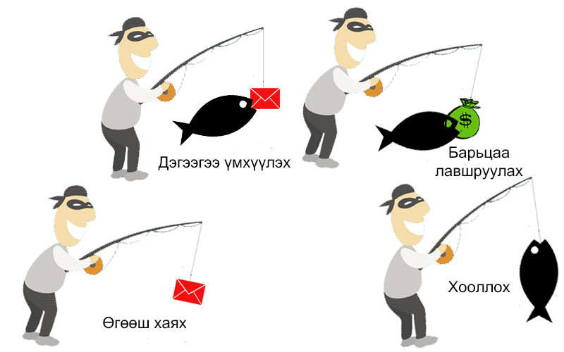 Монгол: Phishing process